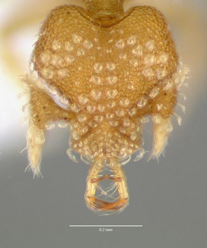 Head view of ant Strumigenys schuetzi specimen casent0005631.